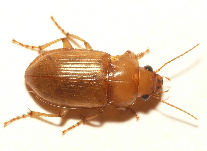 Amara fulva, location: The Netherlands - Renkum - Telefoonweg